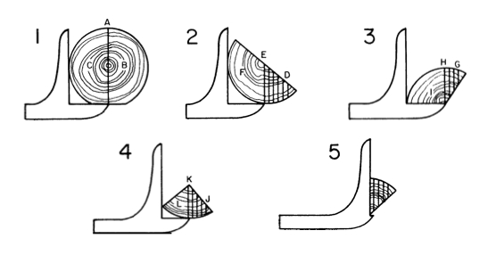 Diagram of quarter sawing logs 16-19 inches